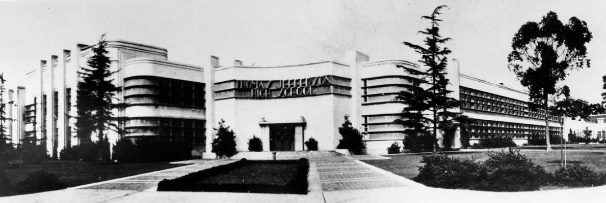 Thomas Jefferson High (Los Angeles) view from the corner of Compton Ave and 41st in 1936. The buildings were designed by Stiles O. Clements and replaced the original structure after the Long Beach Earthquake.